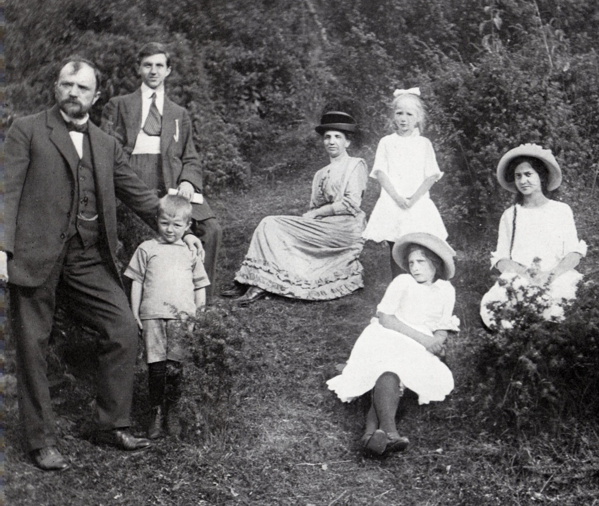 from left to right: Jean Rissmann, Erwin Piscator (1893–1966), Curt Rissmann, Antonie Piscator (1867–1941, middle), Hedwig Renscher (born Rissmann), Else Rölicke (born Rissmann) and Ernestine Rissmann (1872–1950s) in Dillenburg